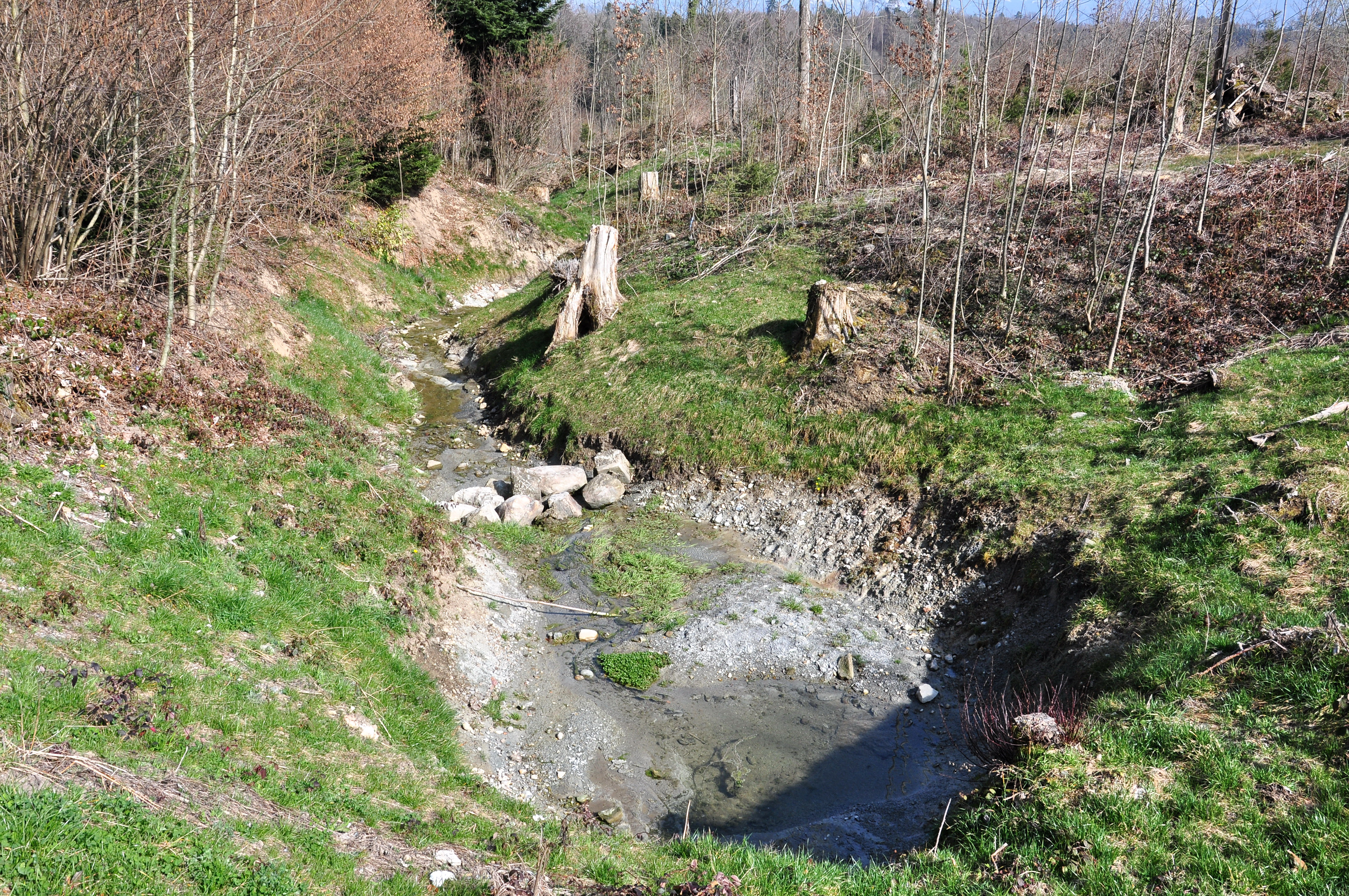 Renaturation nearby Hüllistein respectively Jonerwald towards Jona (Switzerland)